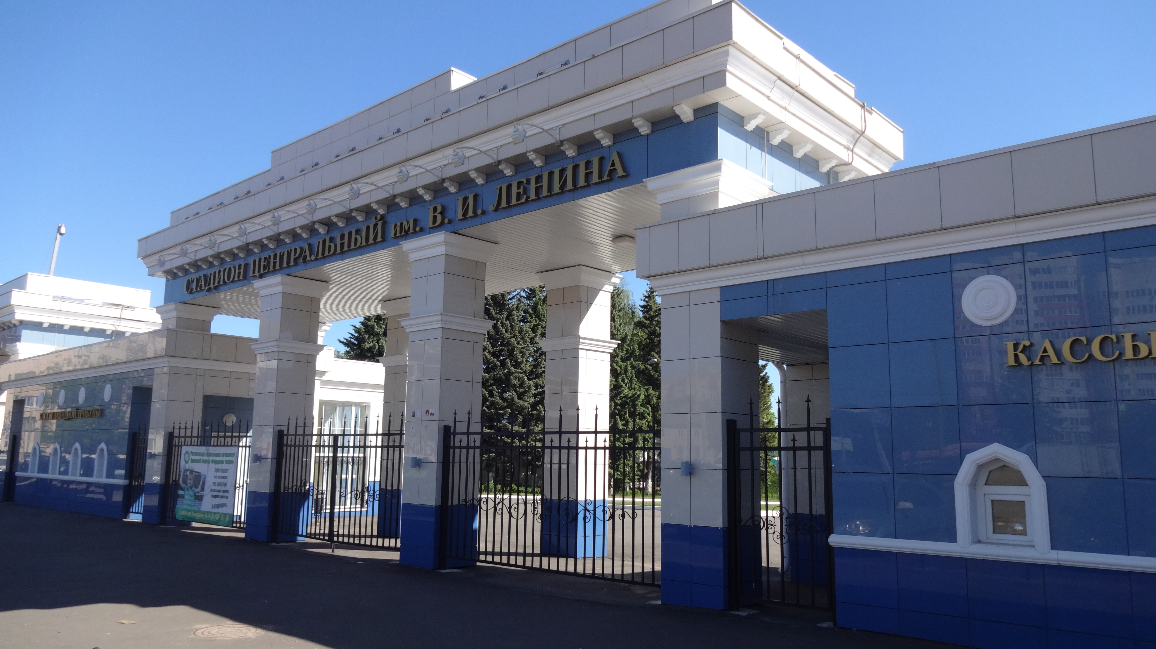 The Central Stadium of Oryol. Entrance.